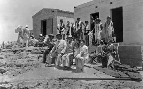 A photo thought to show some of the Russian refugees of 1919 in Malta. Some stayed at St Ignatius College, others at Tigne Barracks and Maria Feodorovna, her daughter and their entourage stayed at Sant'Anton Palace. Attribution of this picture to Ellis is contested. According to other reports, the bathing hut at Exiles in Sliema was only built in 1933. The name "Exiles" is is in fact associated with the social club for the employees of the Eastern Telegraph Company, the predecessor of Cable & Wireless. MVH